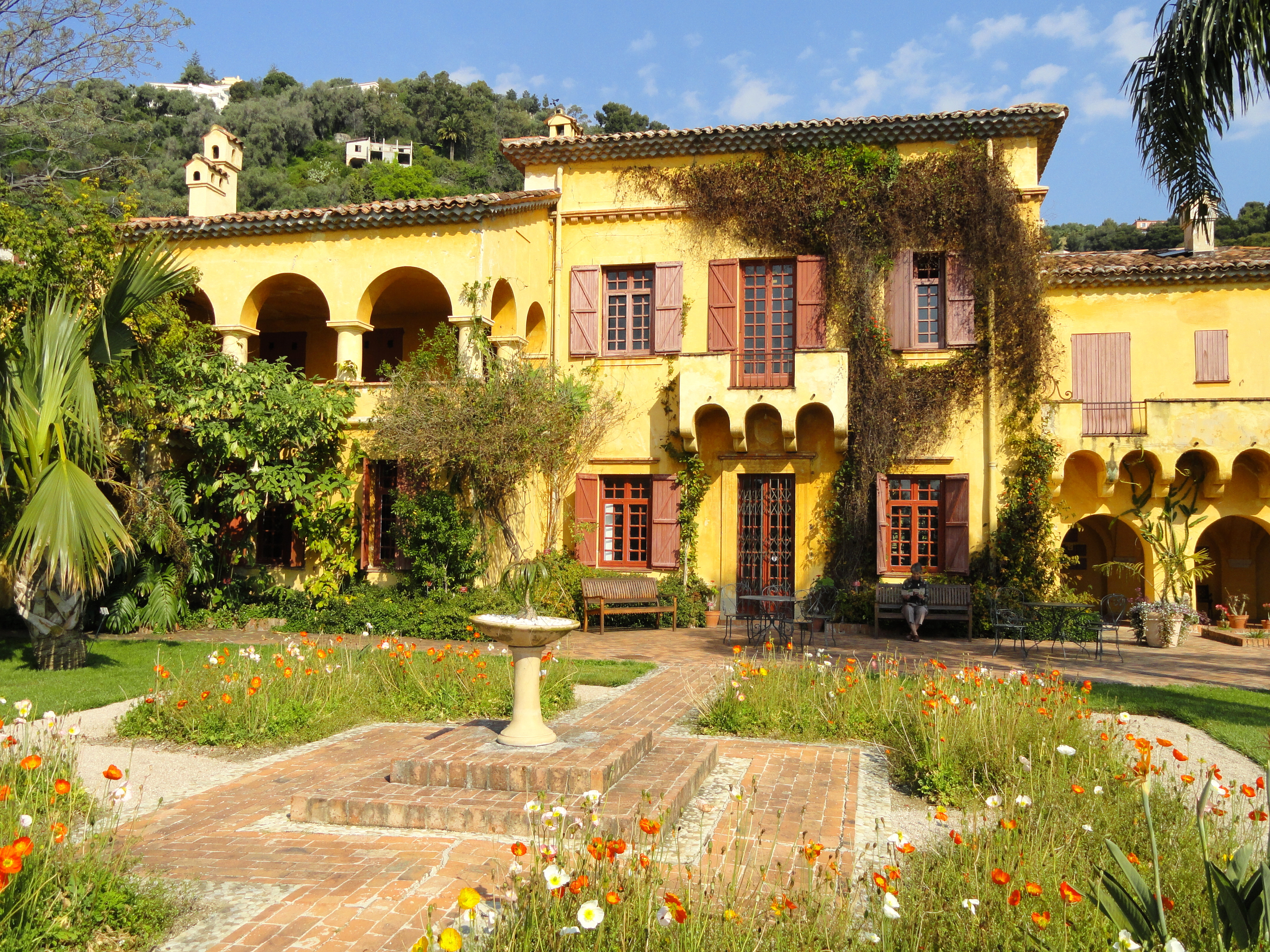 View of the Jardin botanique du Val Rahmeh, Menton, Alpes-Maritimes, France.